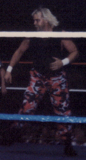 "The Stalker" Barry Windham at a WWF event in 1996